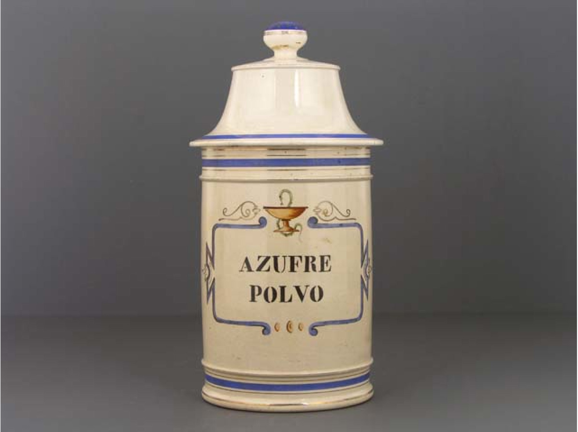 Porcelain jar for sulfur powder from the first half of the 20th century.